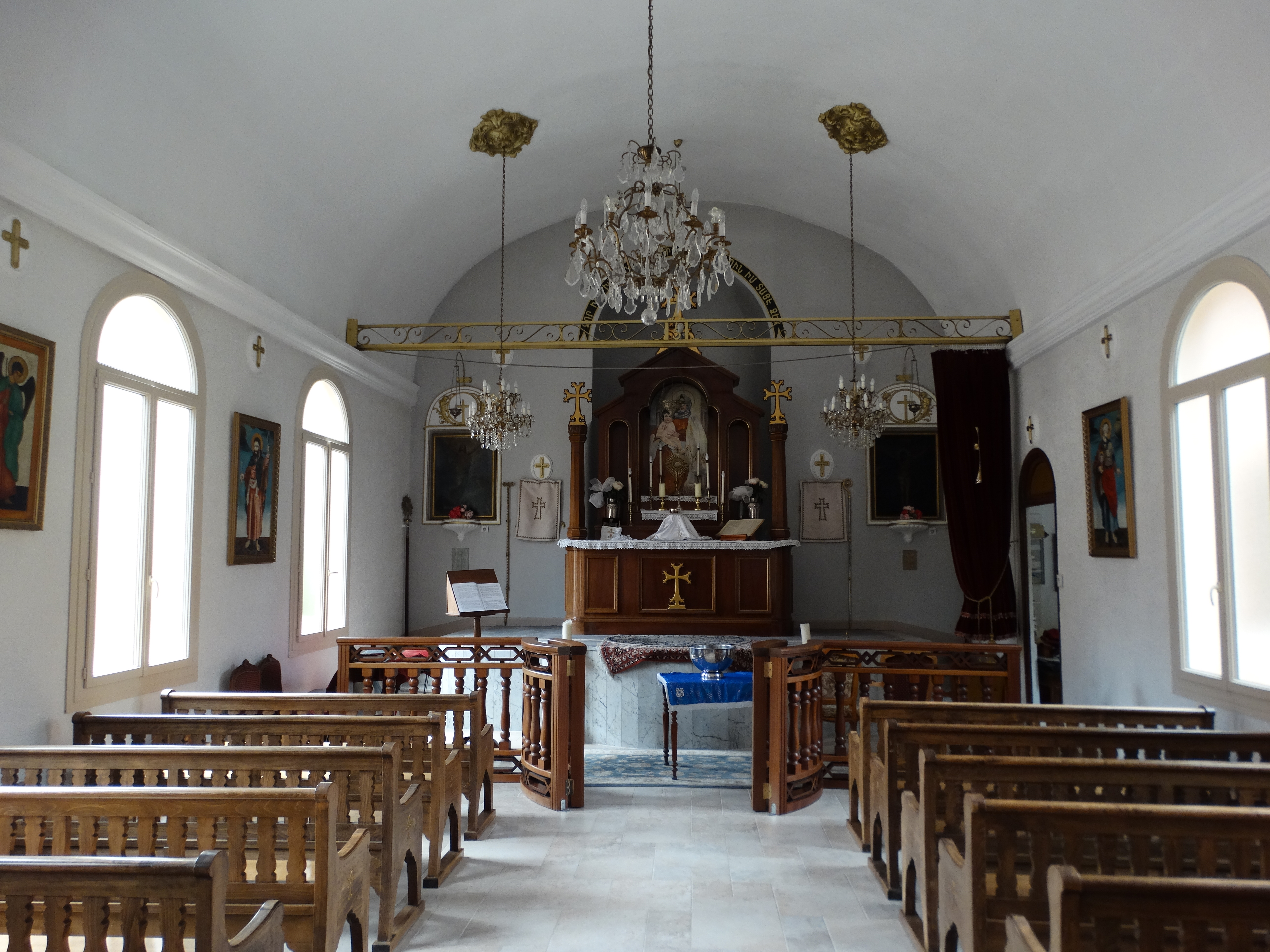 Armenian Surb Astvatsazin chapel in Nice (Inner view)